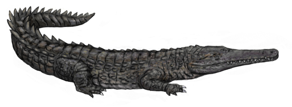 Oceanosuchus boecensis.